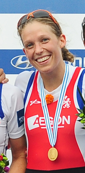 2013 Chungju World Rowing Championships